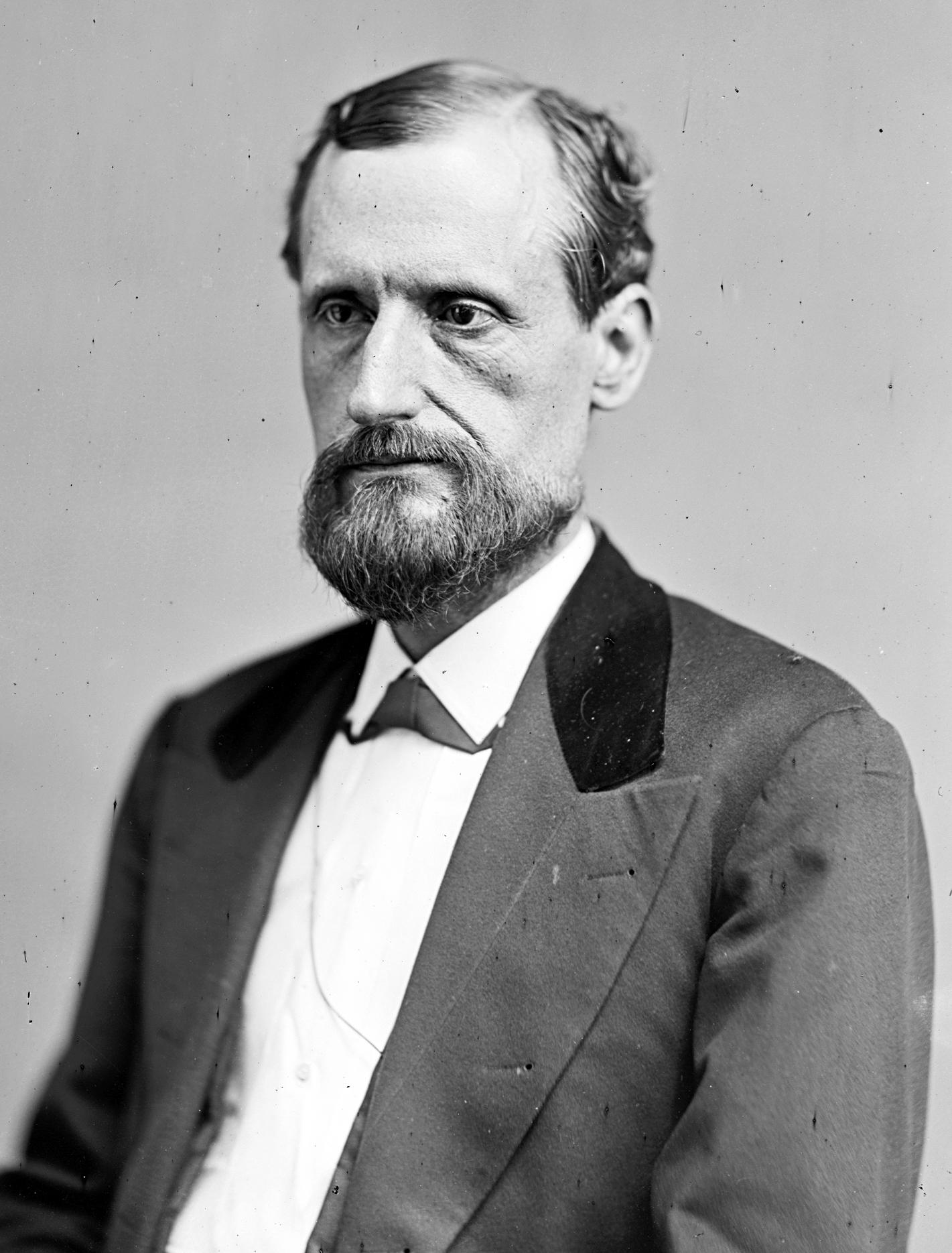 H. Casey Young, US Representative from Tennessee